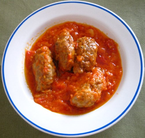 Image of Smyrna meatballs or soutzoukakia smyrneika